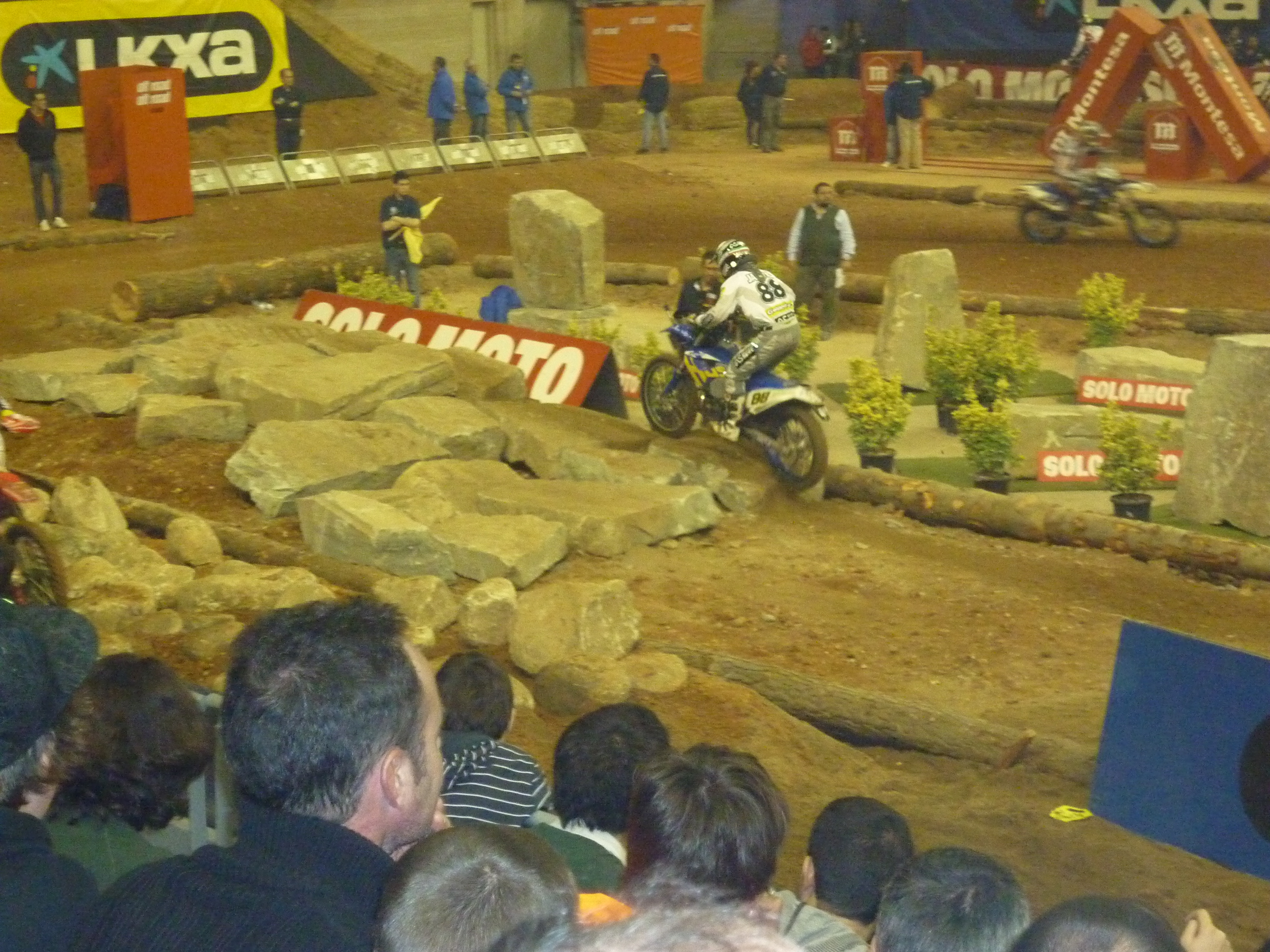 Graham Jarvis (Husaberg) at Palau Sant Jordi (Barcelona, Catalonia) during the XXII Enduro Indoor de Barcelona.